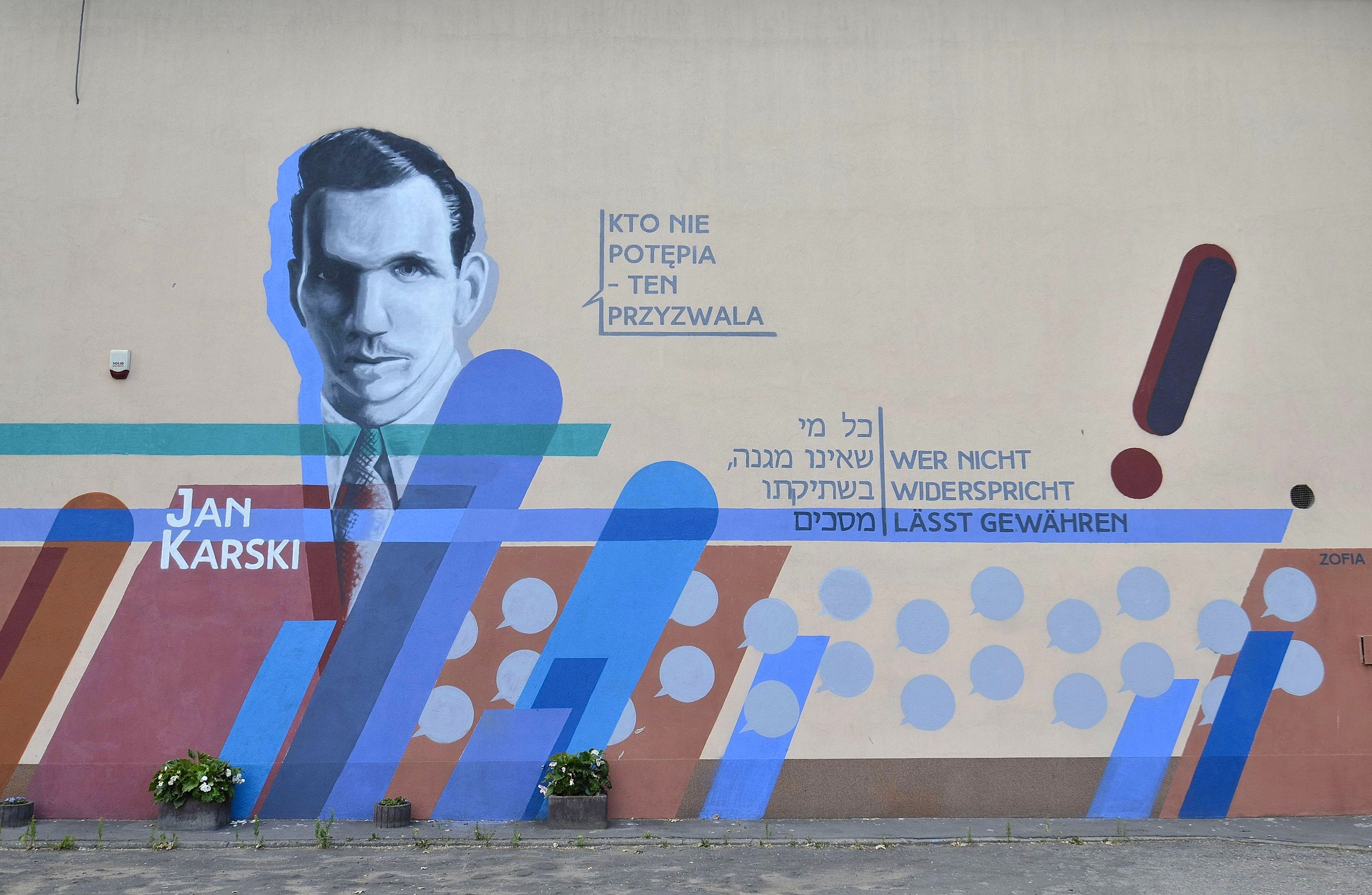 A mural Whoever does not condemn – consents commemorating Polish diplomat Jan Karski who tried to alert the Western Allies about atrocities of the Holocaust and other crimes in German occupied Poland at 30/32 Lubelska Street in Warsaw.